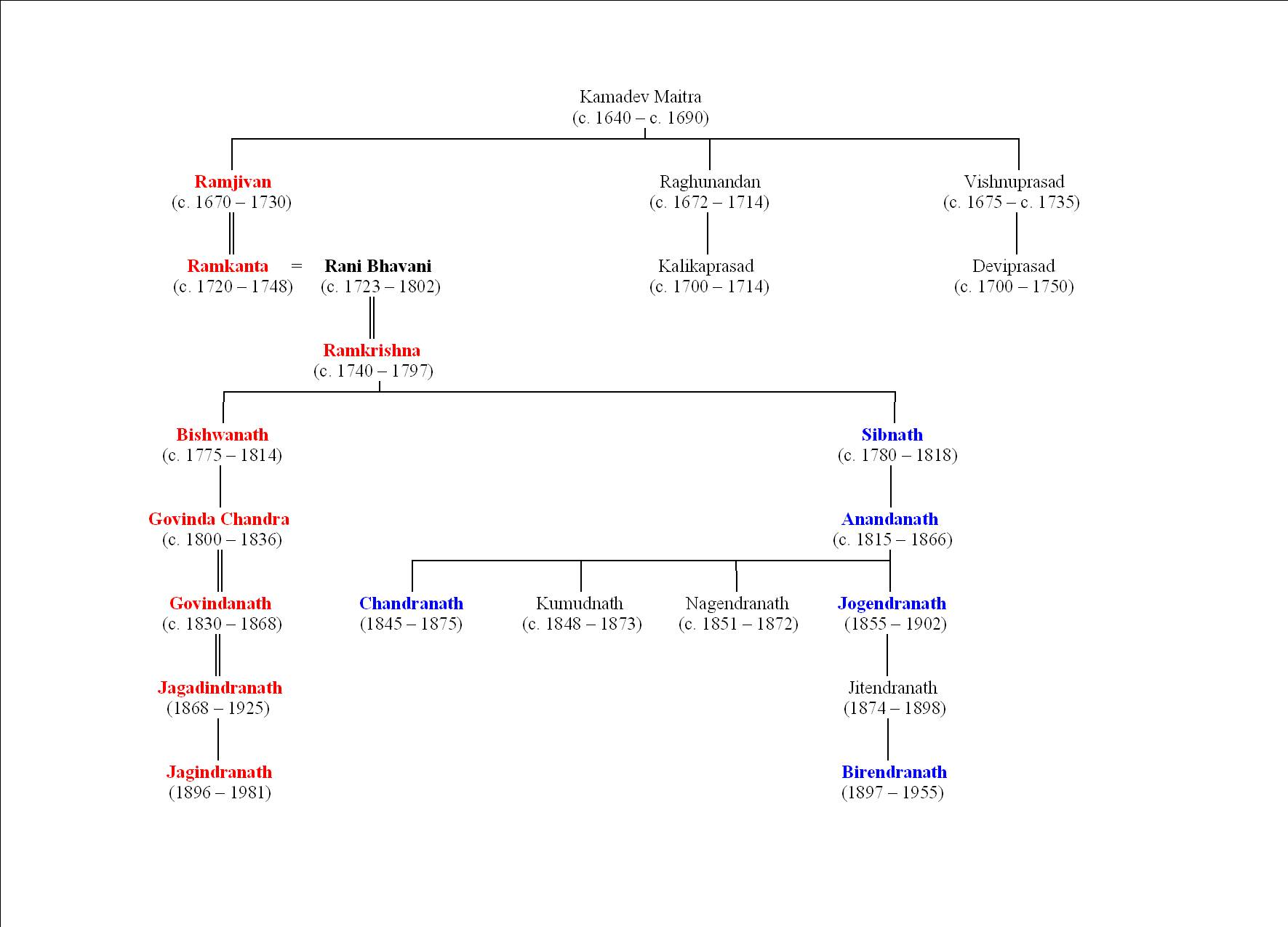 Family tree of the Rajas of Natore, Bangladesh.